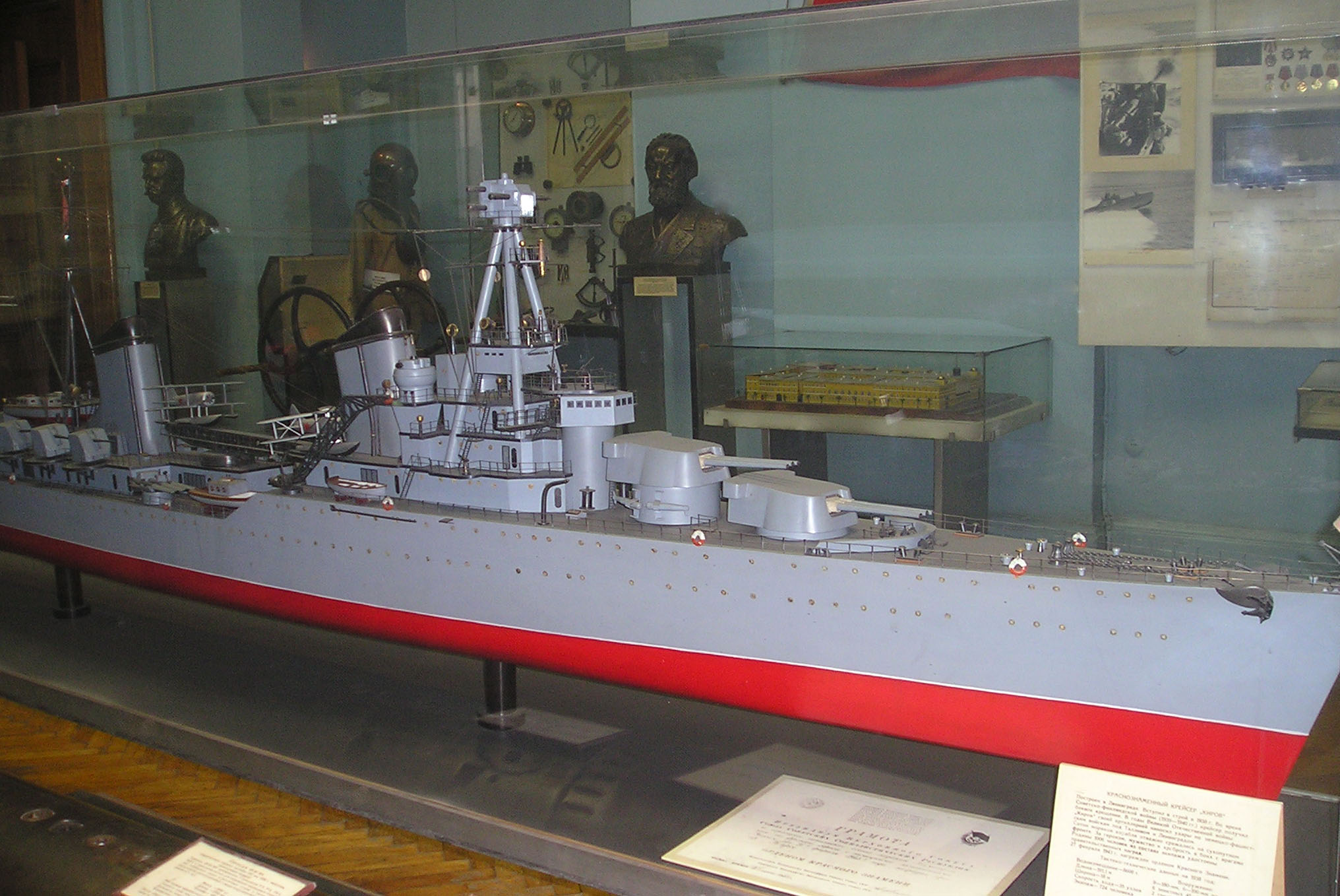 Model of the cruiser Kirov. The exhibit of Navy Museum in Saint-Petersburg, Russia.